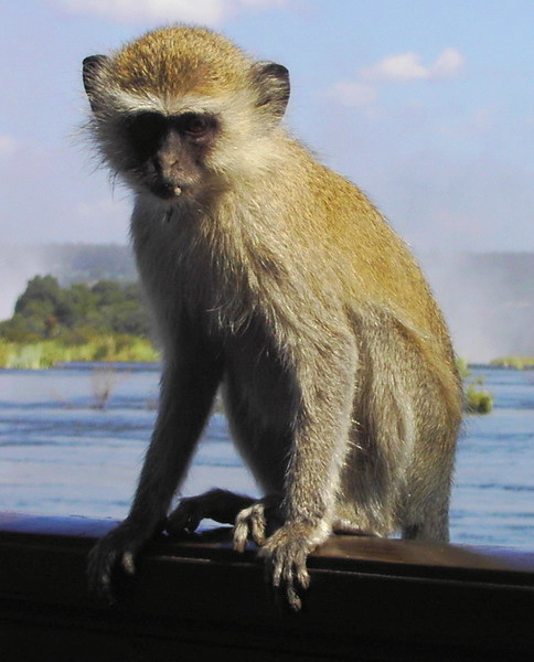 Victoria Falls, Livingstone, Zambia